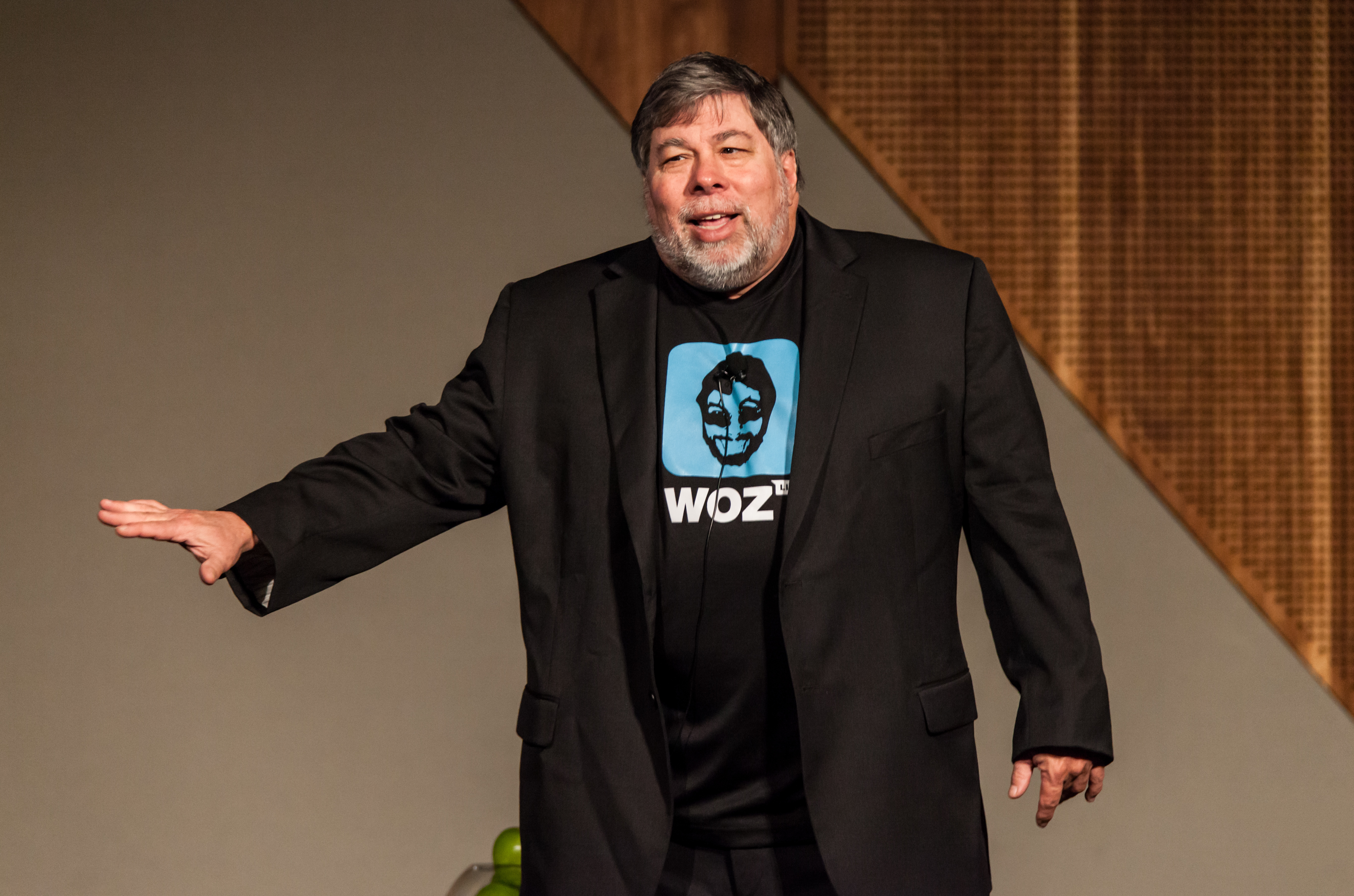 Wozniak on stage at the Melbourne Convention and Exhibition Centre, Australia, May 16, 2012